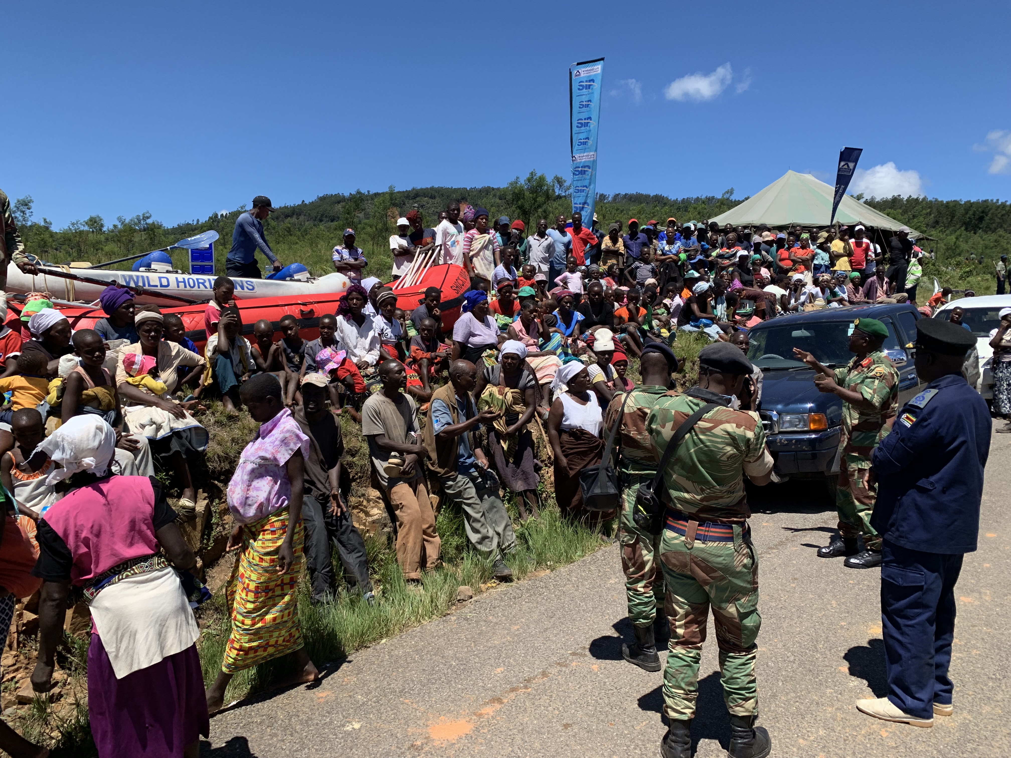 People in Chimanimani complain, March 22, 2019, to senior army officials in charge of a temporary camp set up after Cyclone Idai that food is not reaching them.